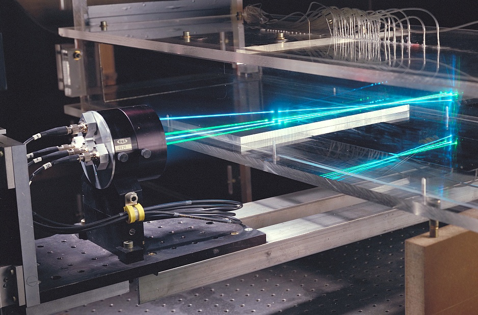 2D-Laser Doppler Velocimeter at a flow channel. Two pairs of laser beams, slightly different in color/wavelength, for measuring the longitudinal and vertical component of the flow velocity at the point of intersection. The object lens is fiber-optically coupled to the laser system (not shown) facilitating scanning movements of the object lens together with the mechanically connected detector at the opposite side of the flow channel. The air inside and outside the channel is loaden with smoke to show the beams (note the apparent break where the beams pass through the wall of the channel).